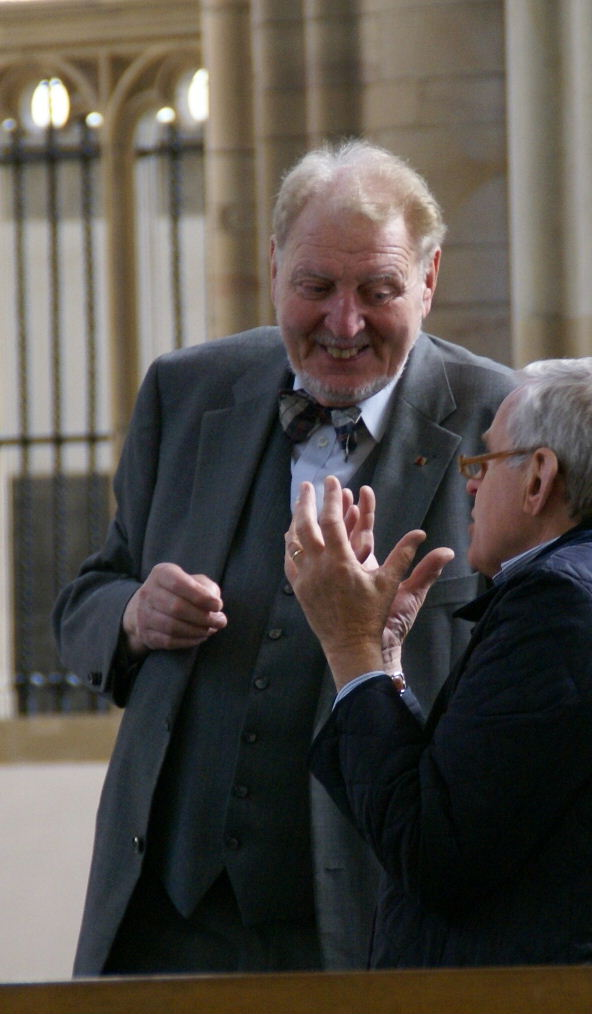 Prof. Wolfgang Deurer at Willibrordi Cathedral in Wesel, Germany